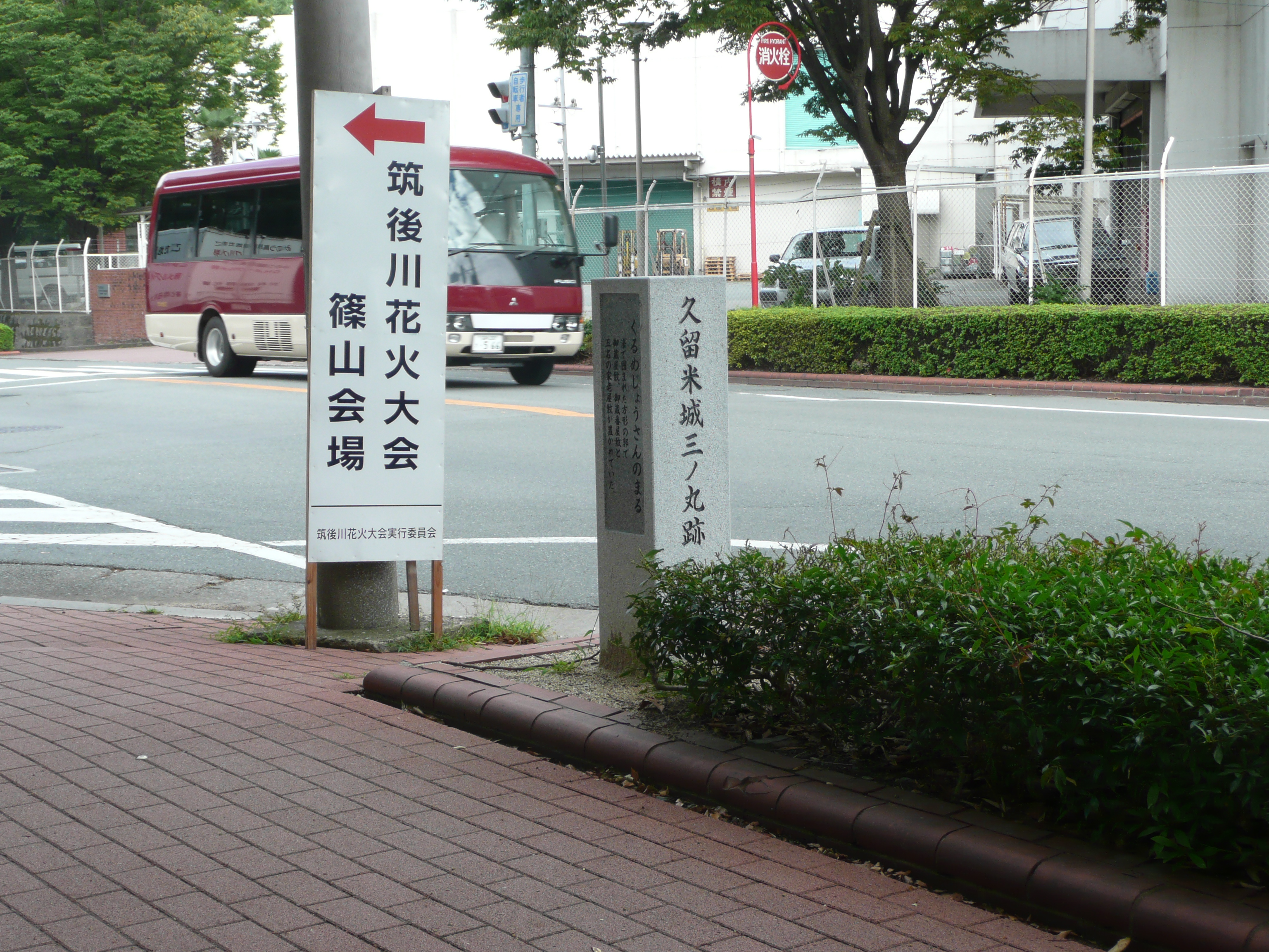 久留米城の三の丸